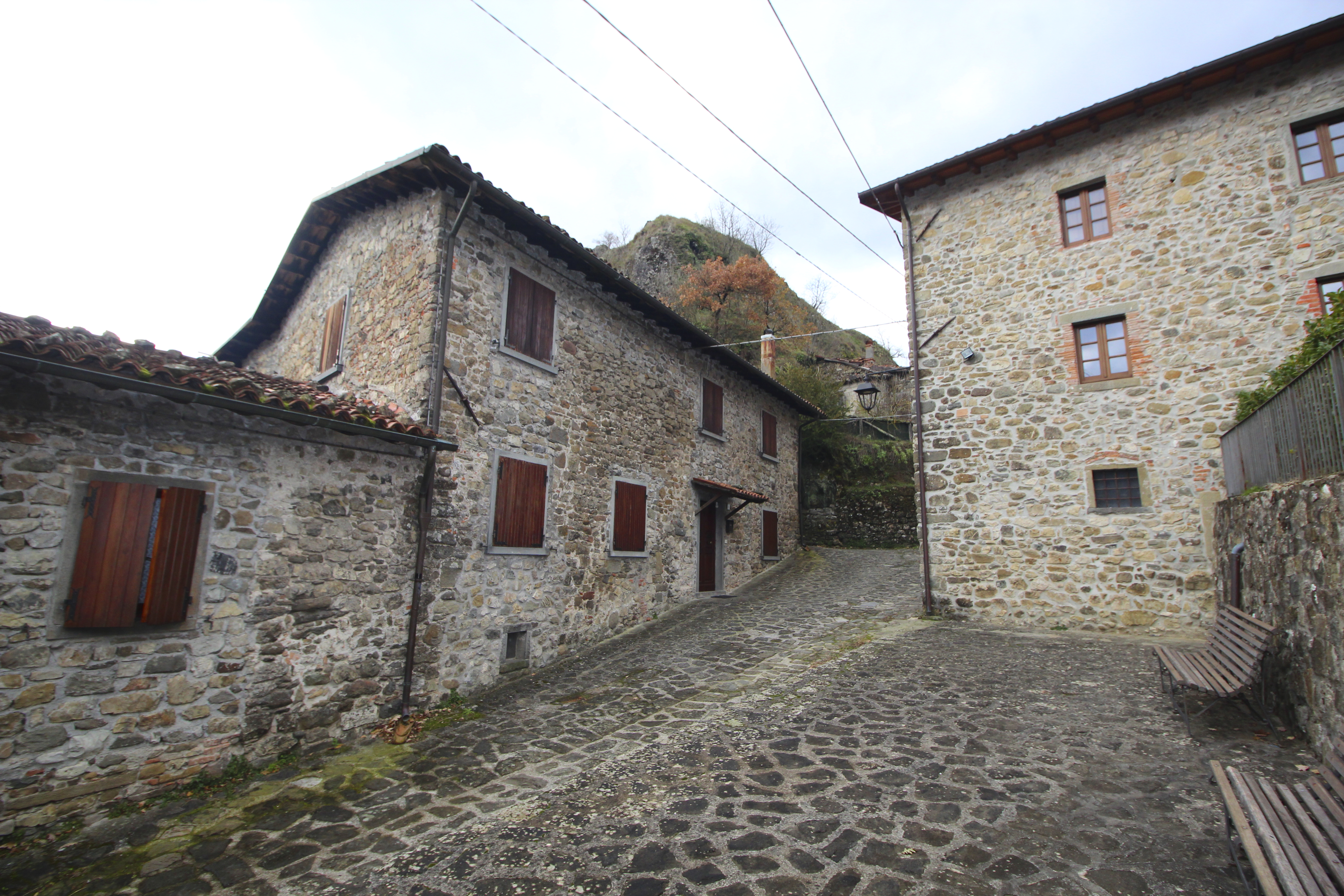 Sambuca, hamlet of San Romano in Garfagnana, Province of Lucca, Tuscany, Italy